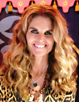 First Lady Maria Shriver at the Women's Conference book signing.